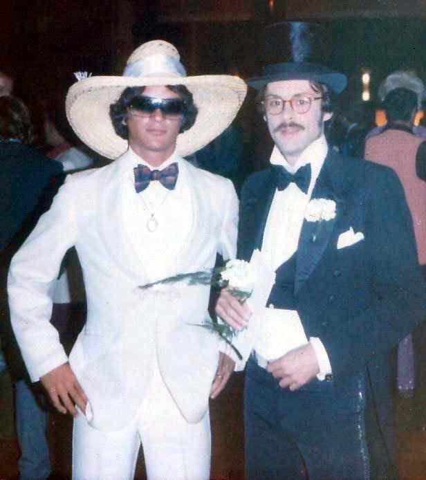 Steve Vigil and Lars Jacob, as released by image creator Lars Jacob ProdPlace: Miami Beach, Florida